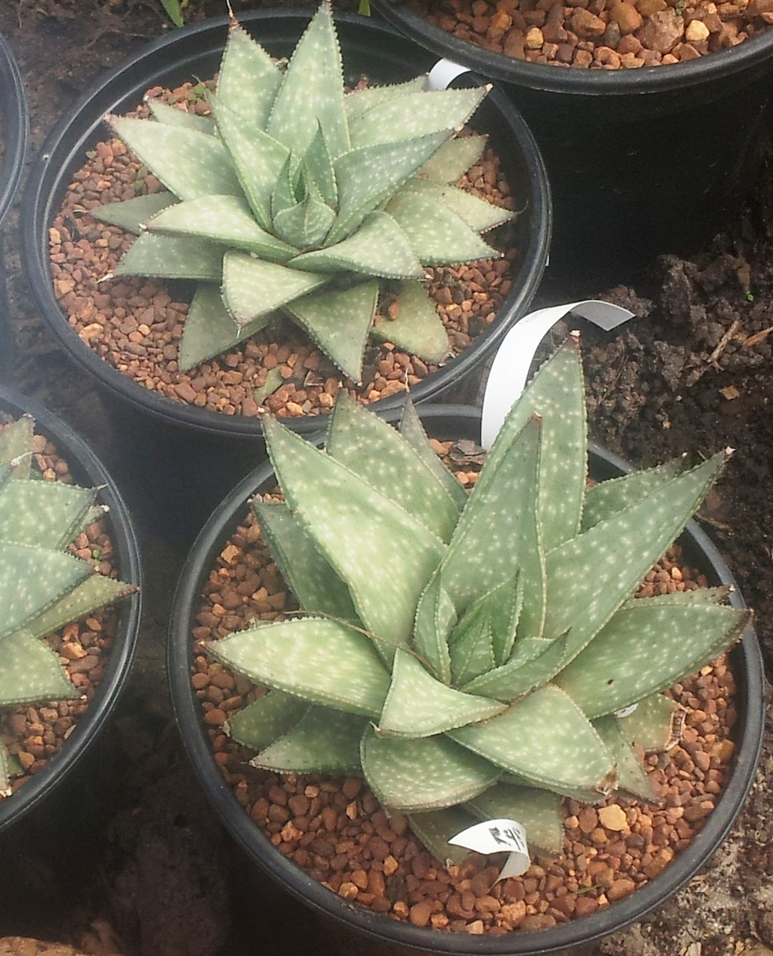 Gasteraloe grey ghost - Cape Town